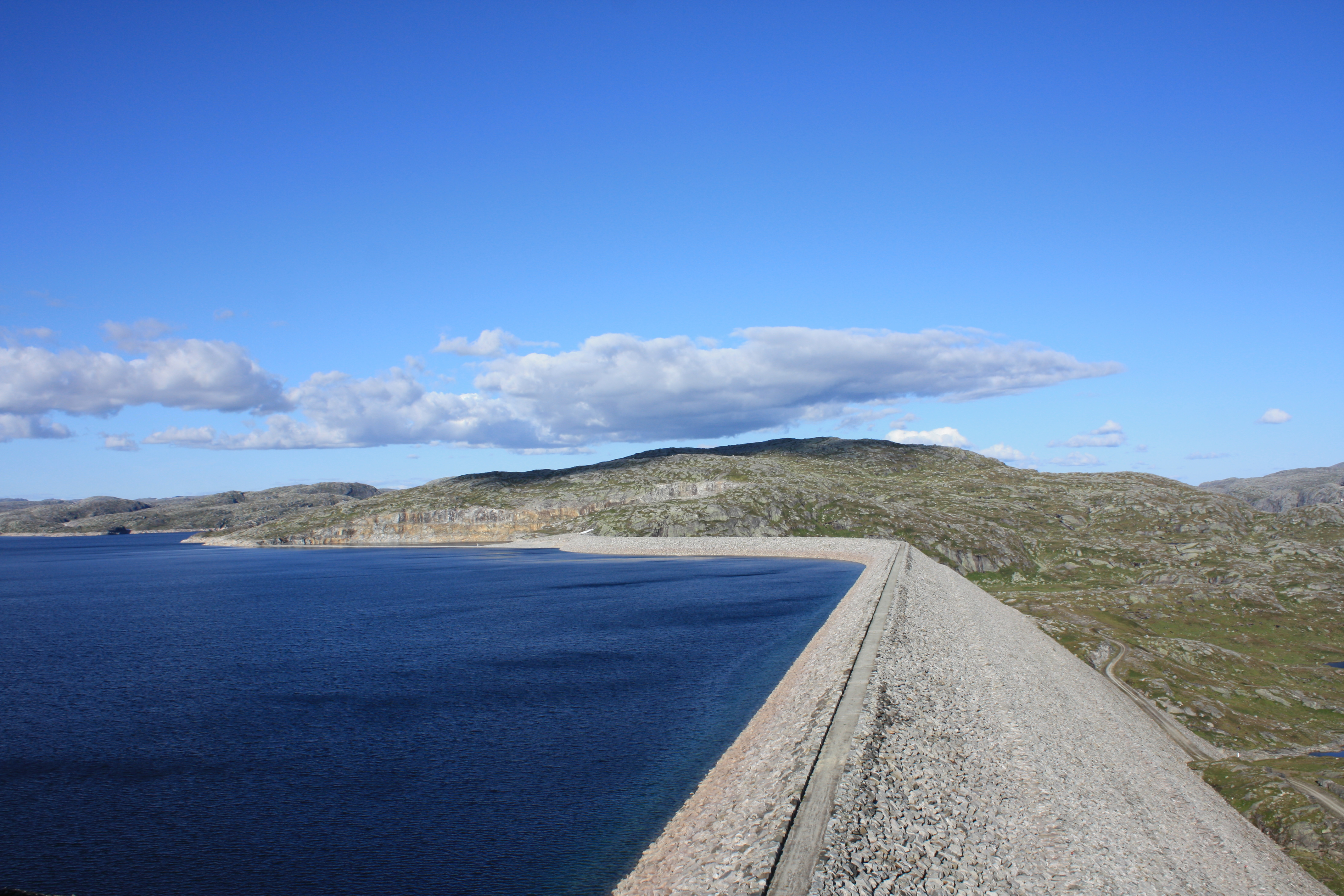 Storvassdammen and Blåsjø. Part of Ulla-Førre